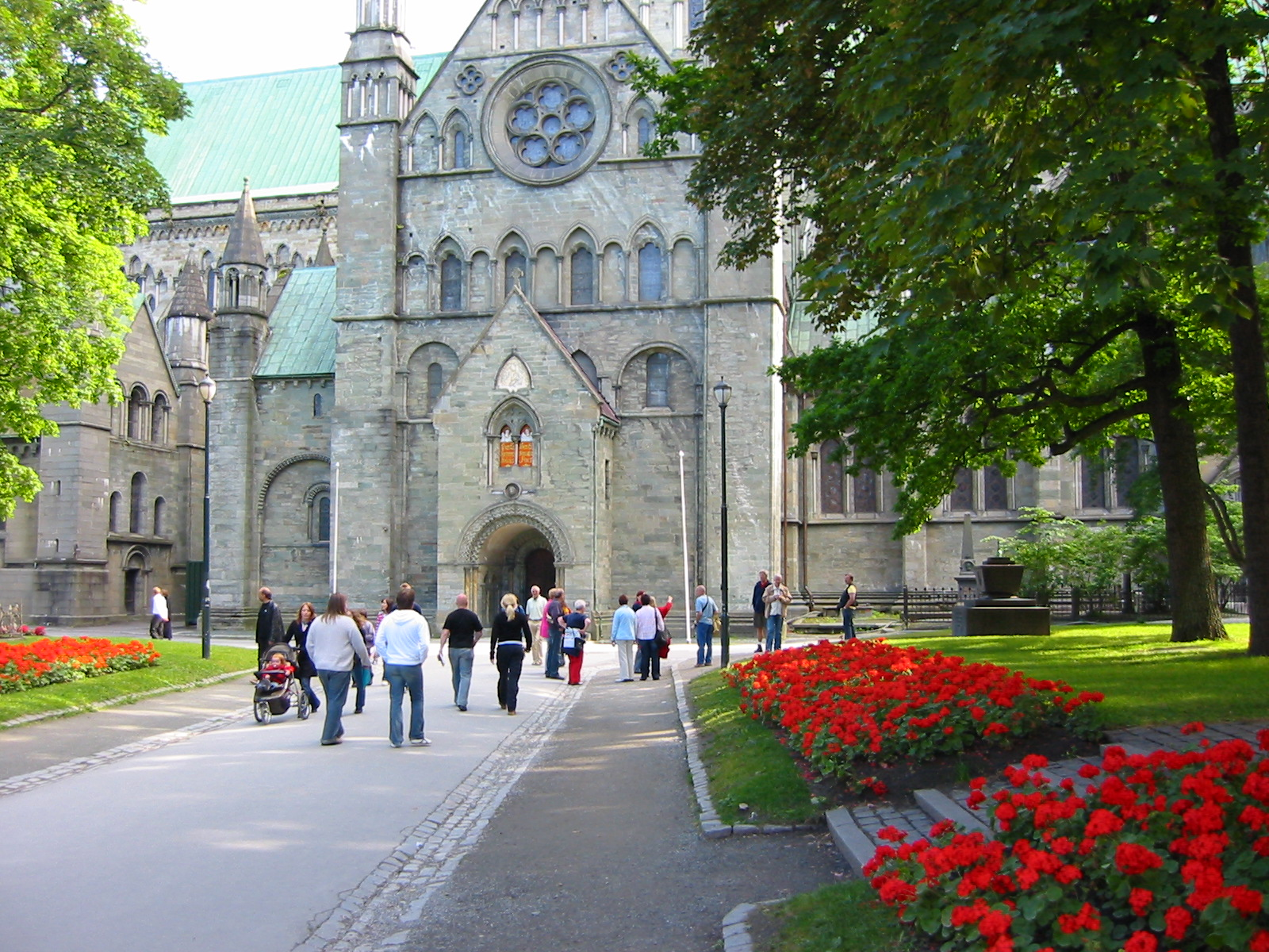 The northern front of the Nidaros Cathedral; this is what you will see if you walk along the Munkegate from the city square.